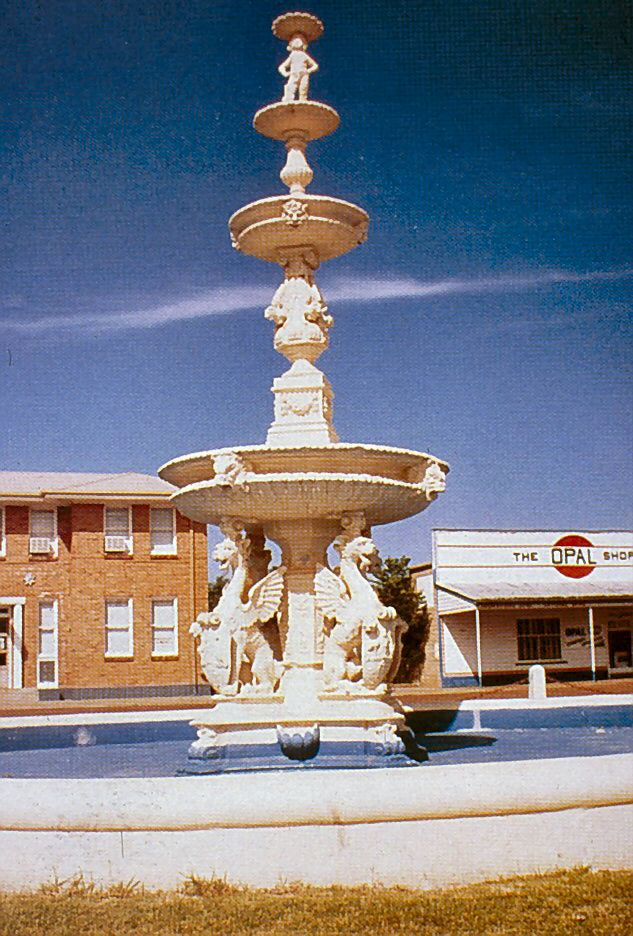 Cunnamulla War Memorial Fountain (2015)